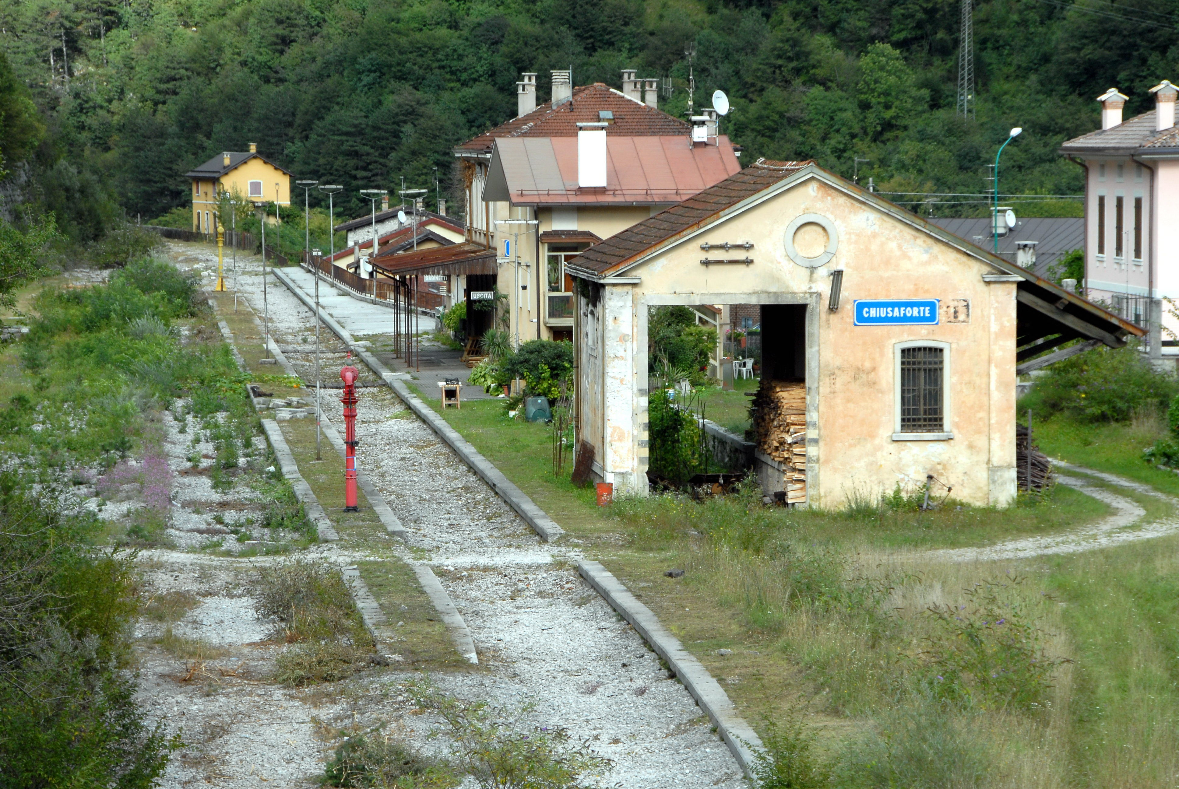 Defunct train-station at Chiusaforte, formerly part of the old "Pontebbana", in the north-eastern part of Italy, region Friuli-Venezia Giulia